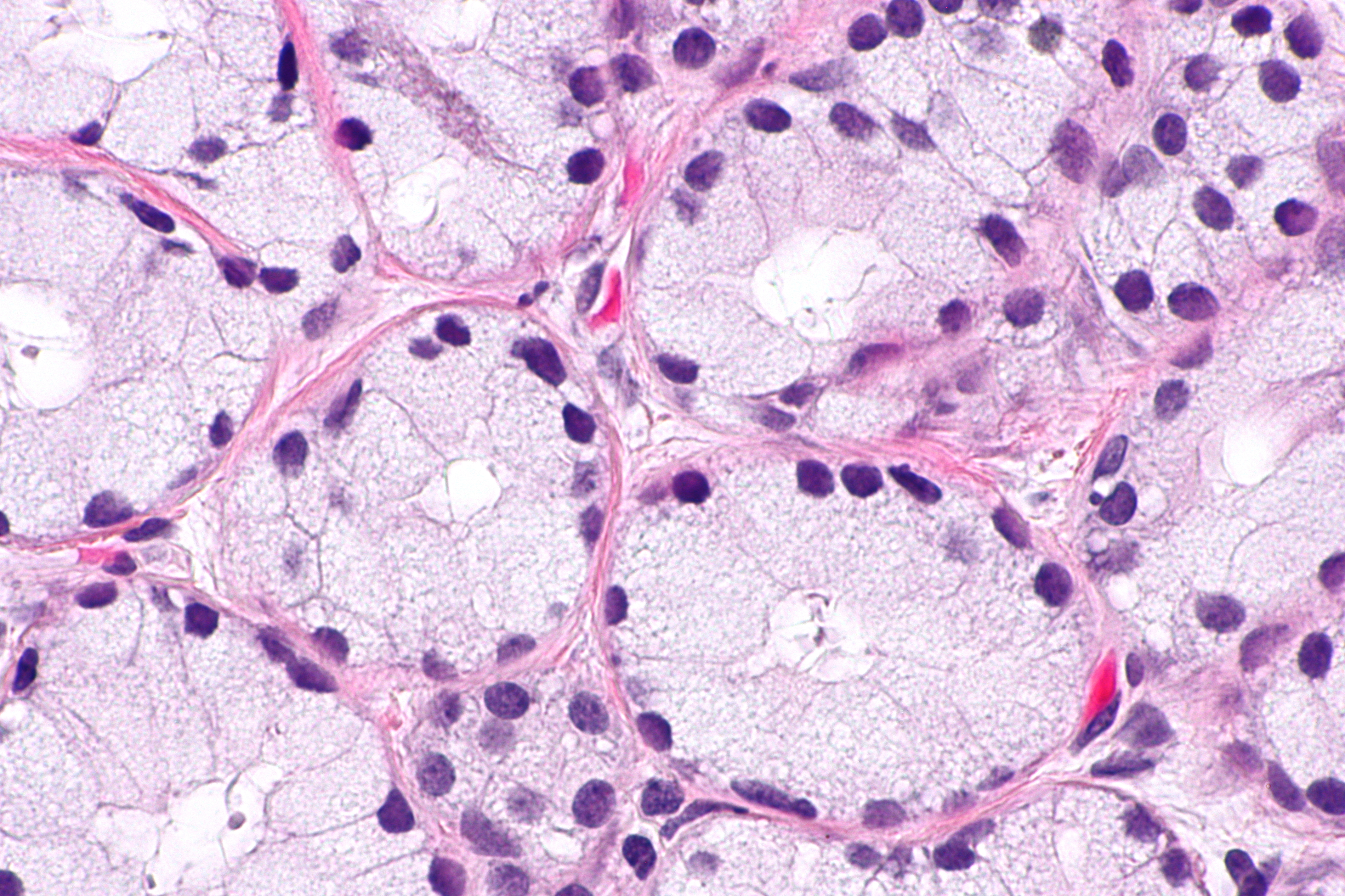 Micrograph of a bulbourethral gland, also Cowper's gland. H&E stain. Related images BG - intermed. mag. BG - high mag. BG - very high mag. BG - intermed. mag. BG - high mag. BG - very high mag.